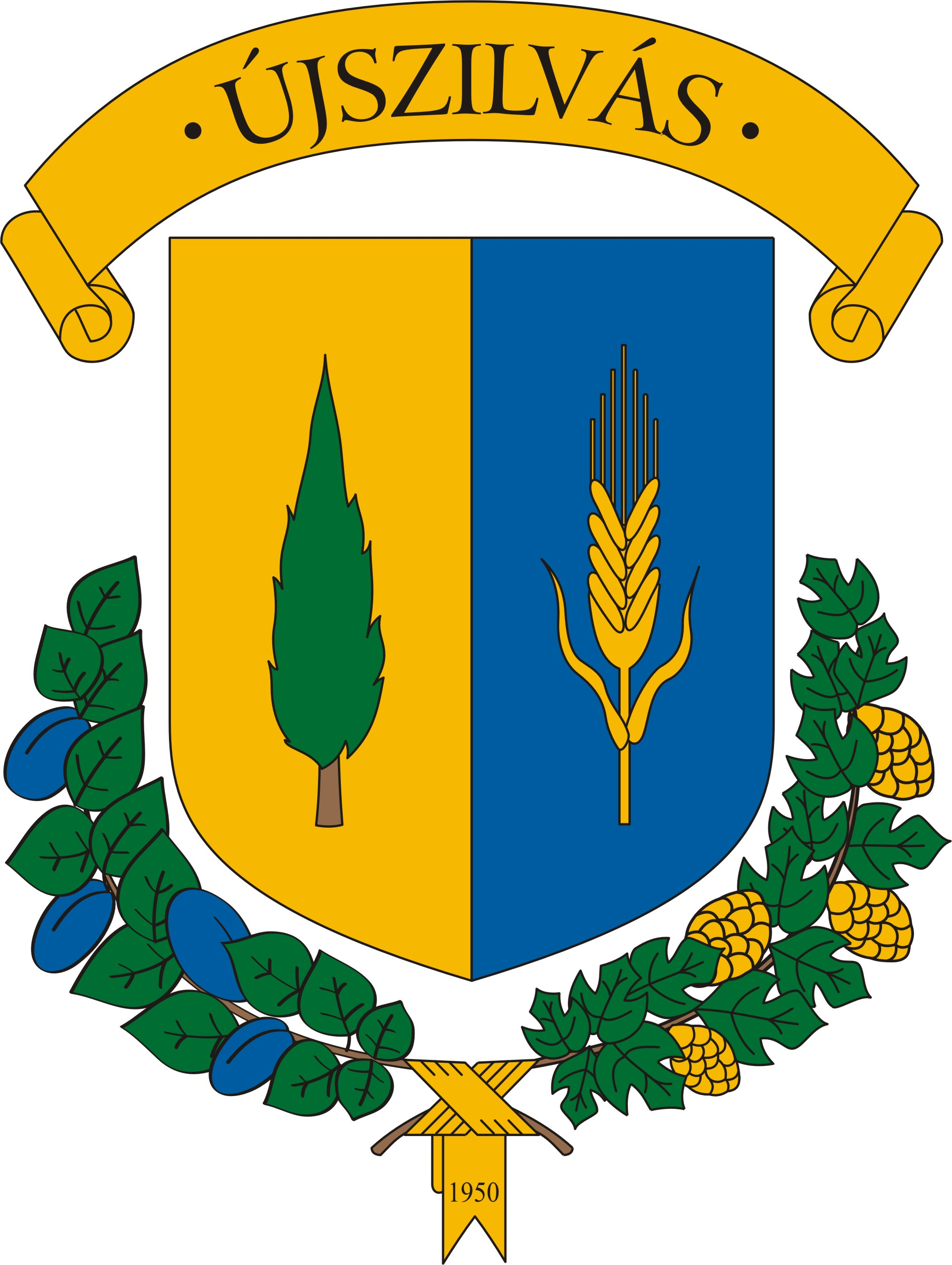 Coat of arms of Újszilvás, Hungary